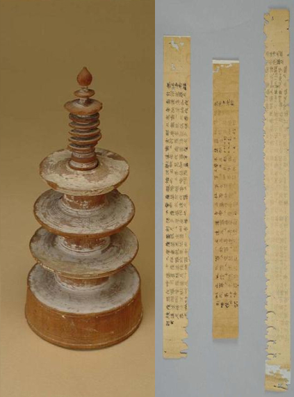 One Million Small Wooden Pagodas and Dharani Prayers (770)